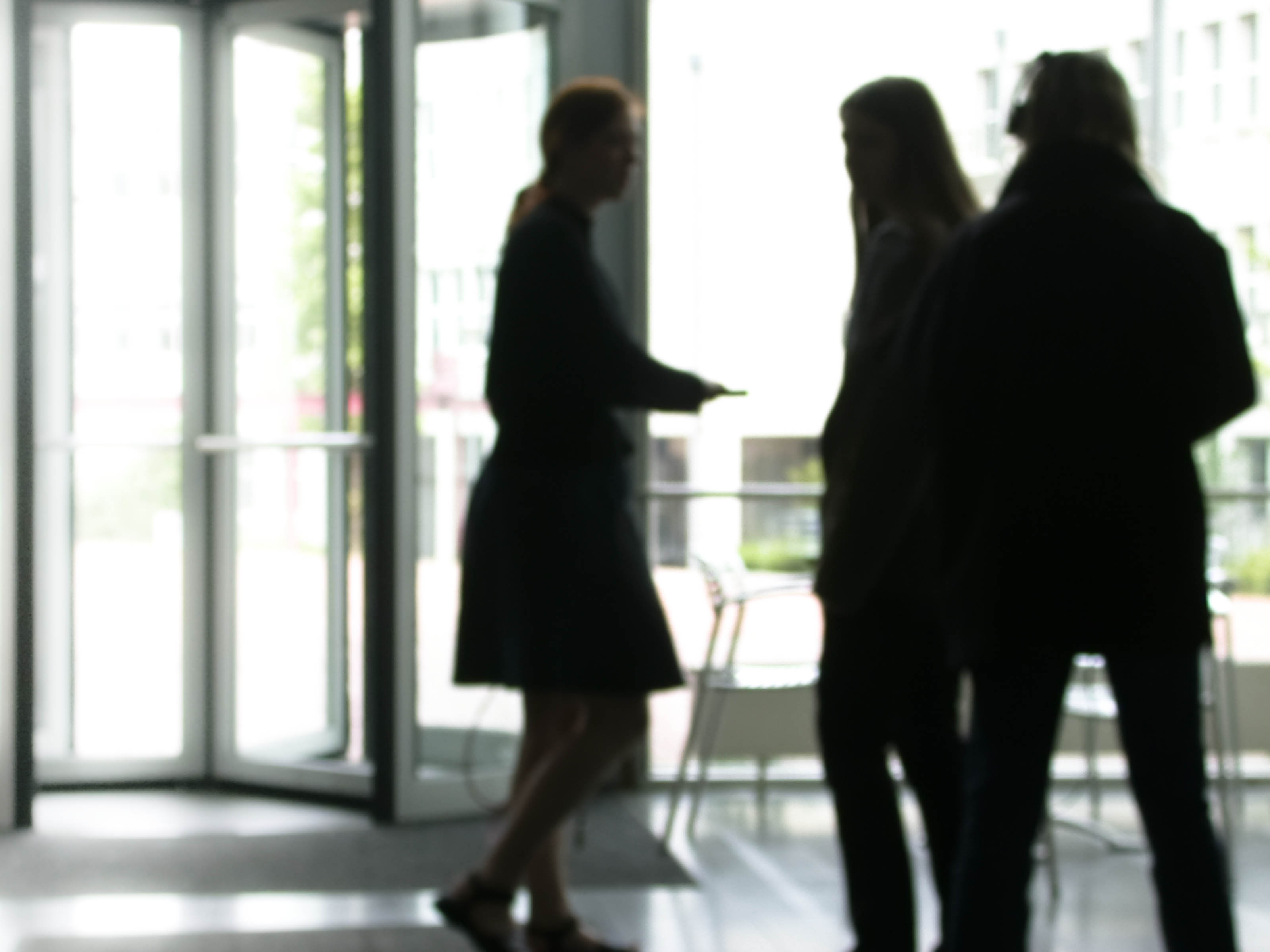 University students communicate. Two women and a man in the college lobby.